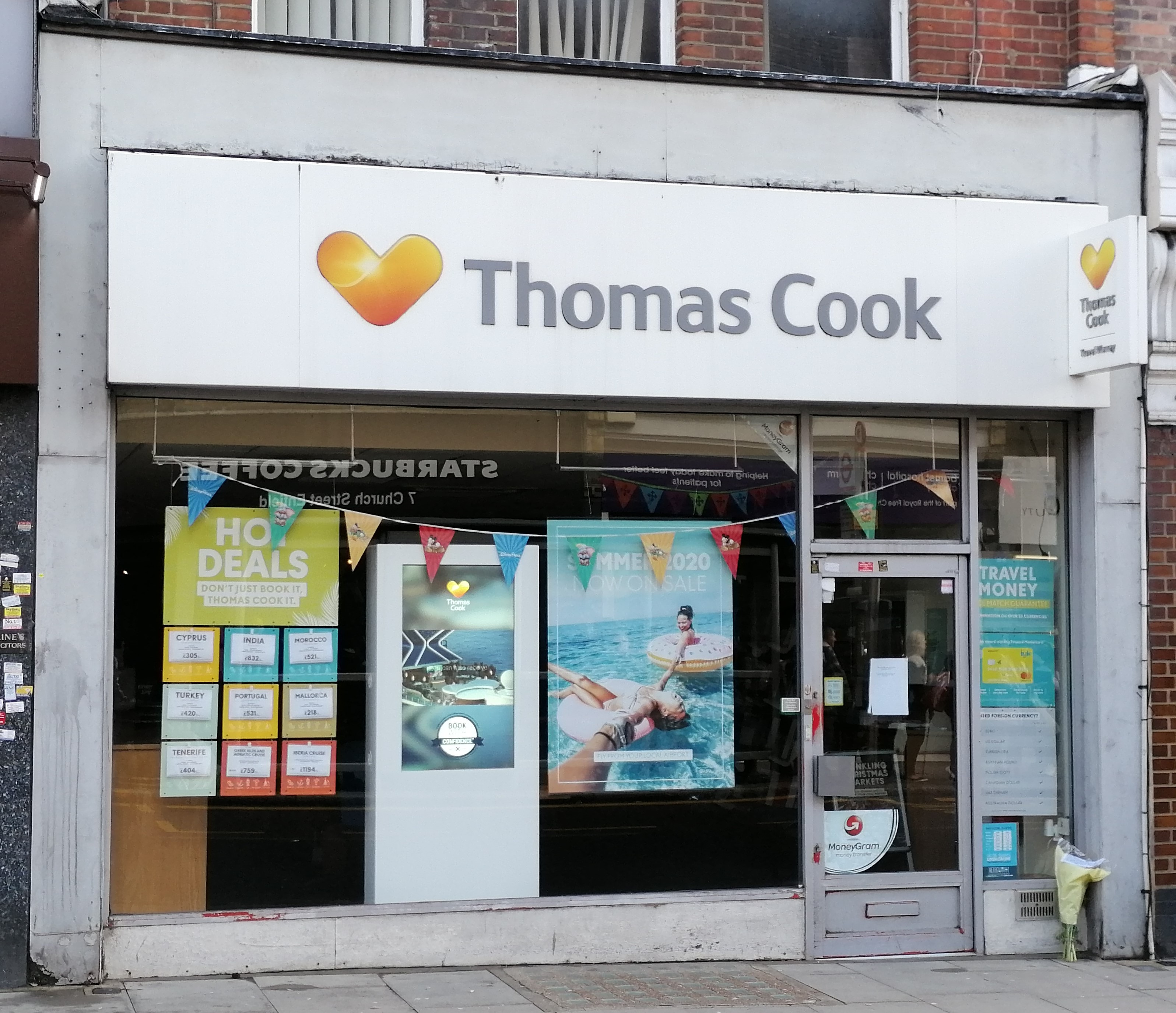 Thomas Cook R.I.P. flowers Enfield, London